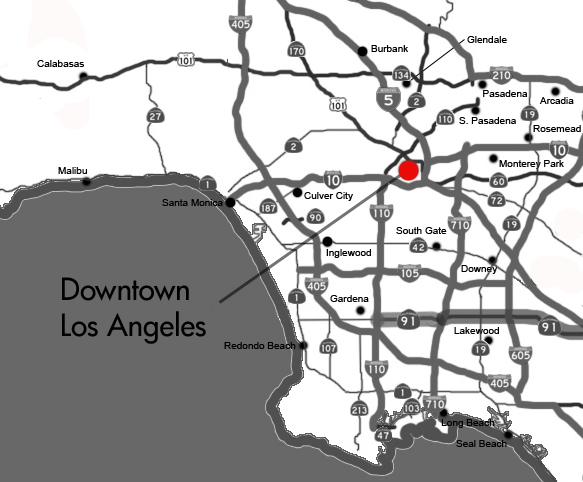 Map of the Greater Los Angeles Freeway system - with Downtown Los Angeles at its center.